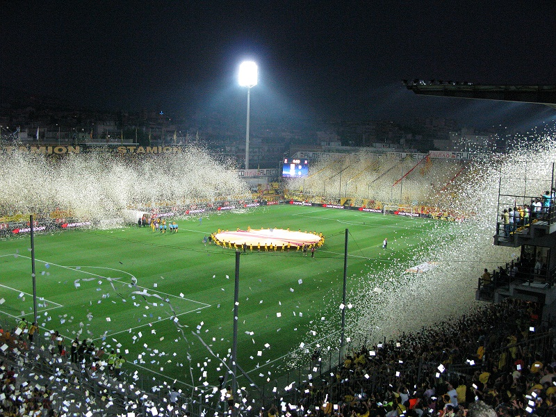 Picture from Aris-Atletiko football match